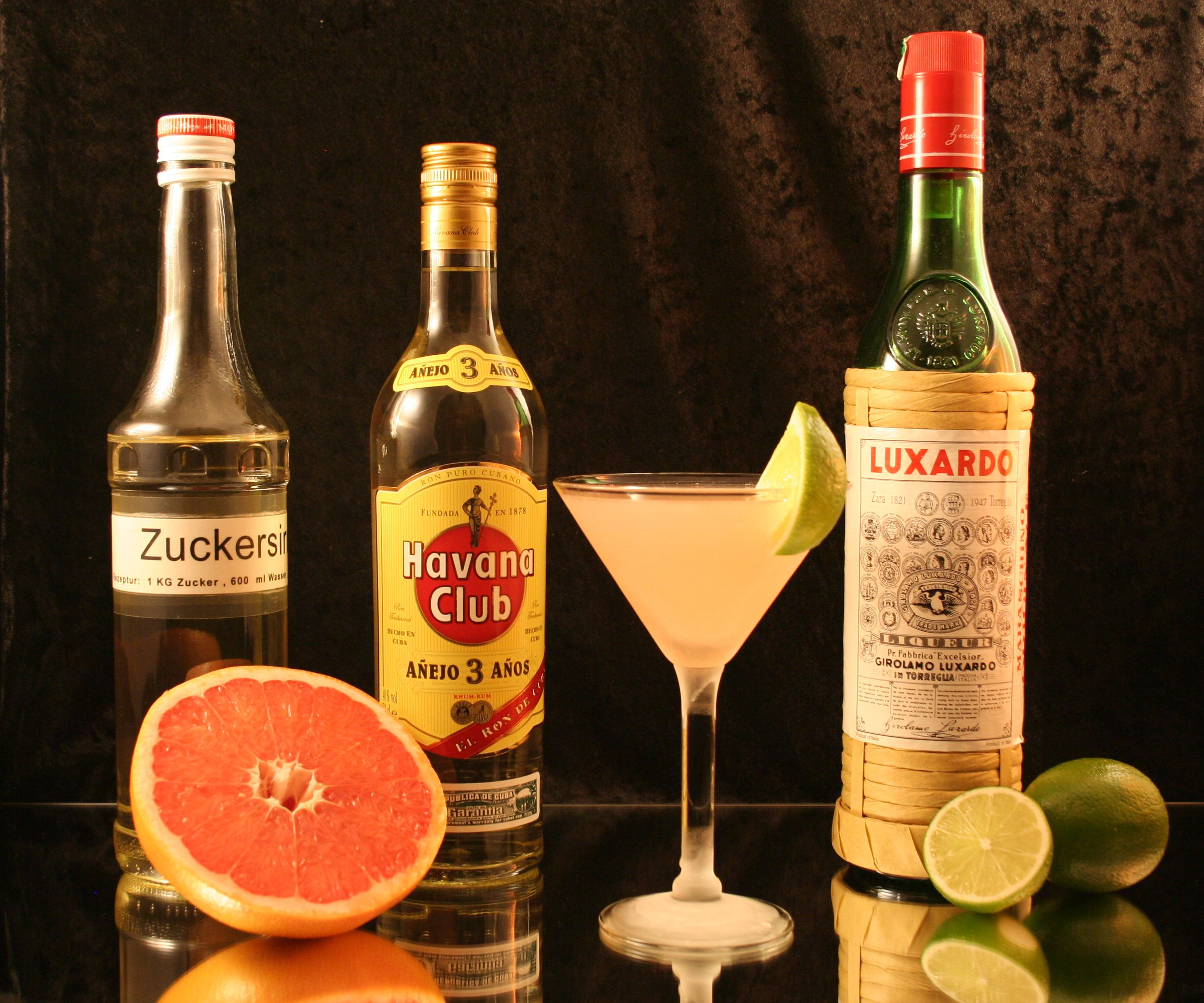 Hemingway Daiquiri with key ingredients (simple syrup, pink grapefruit, Cuban rum, Maraschino liqueur, lime